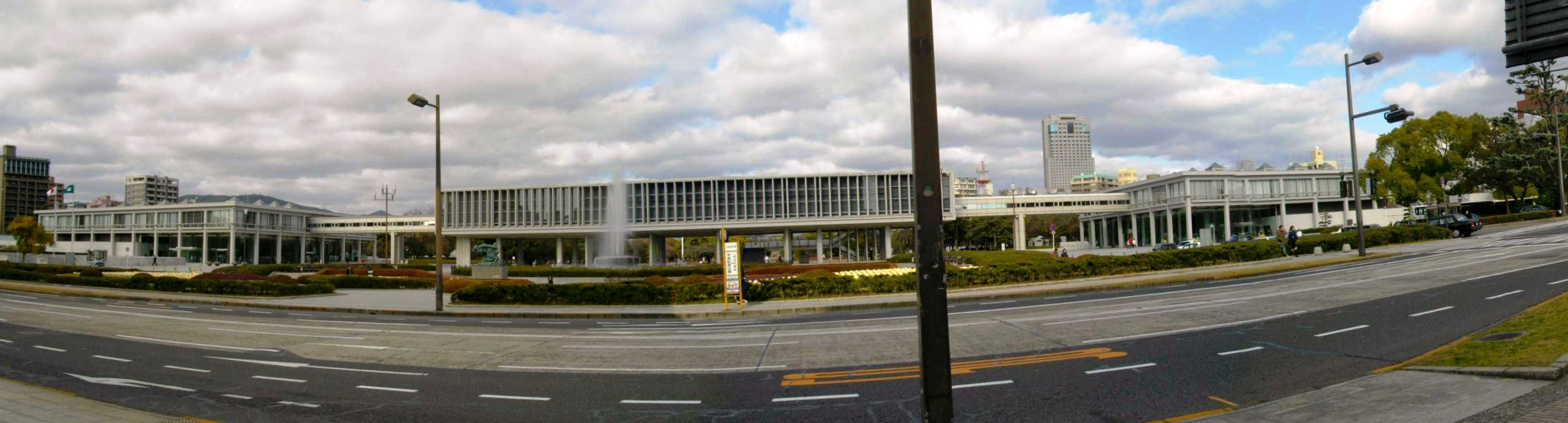 Hiroshima_Peace_Memorial_Museum_and_International_Conference_Center_Hiroshima(広島平和記念資料館及びja:広島国際会議場)